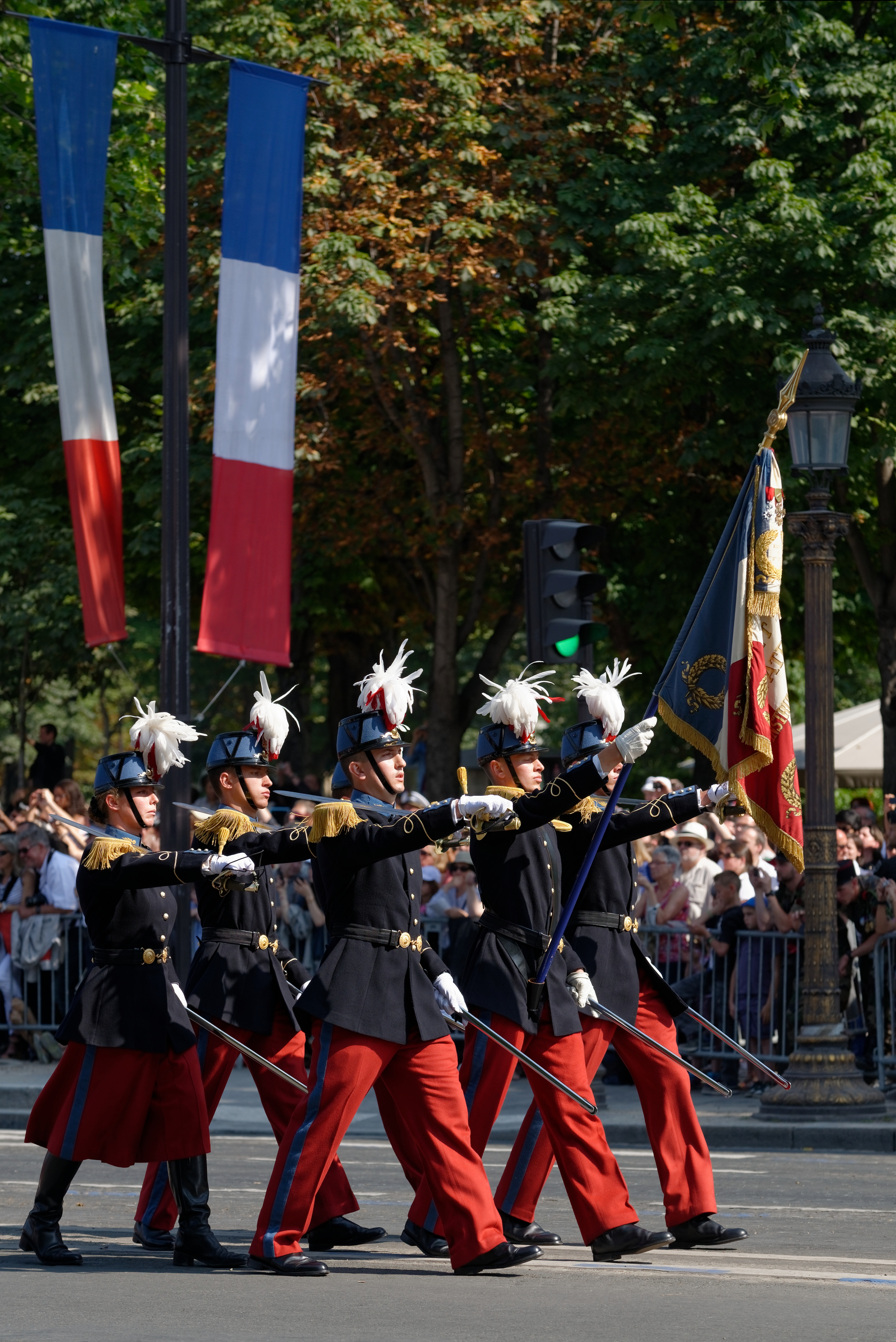 Colour guard of the Special Military School of Saint-Cyr in the Bastille Day 2013 military parade on the Champs-Élysées in Paris.